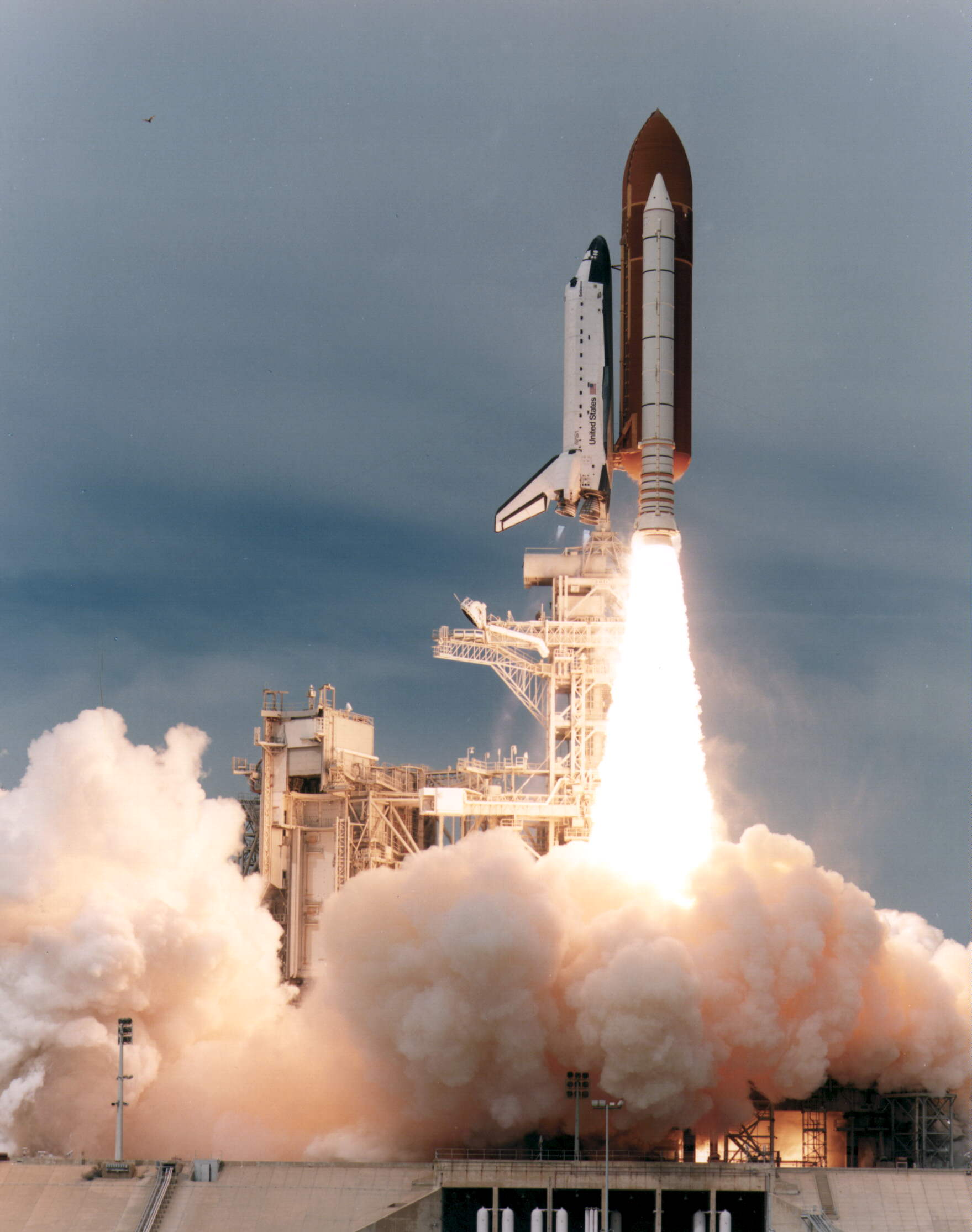 A pack of astronauts that run under the banner Dog Crew II heads for the stars. Liftoff of the Space Shuttle Endeavour from Launch Pad 39A occurred at 11:09:00.052 a.m. EDT, Sept. 7, 1995. "Every dog has its day and today is your day," KSC Orbiter Test Conductor Roger Gillette pledged to STS-69 Mission Commander David M. Walker, Pilot Kenneth D. Cockrell, Payload Commander James S. Voss and Mission Specialists Michael L. Gernhardt and James H. Newman prior to launch. The STS-69 astronaut crew developed a strong sense of comaraderie as they went through their flight training, and dubbed themselves the Dog Crew II to carry on a tradition that arose during an earlier Shuttle flight -- STS-53 -- to which both Voss and Walker were assigned. Each crew member adopted a dog-theme name: Walker is Red Dog; Cockrell, Cujo; Voss, Dogface; Newman, Pluto; and Gernhardt, the only space rookie, Underdog. A special patch, featuring a bulldog in a doghouse shaped like the Space Shuttle, was designed for the astronauts and other flight team members to wear. The Dog Crew II is embarking on an 11-day multifaceted mission featuring two free-flying scientific research spacecraft as well as a host of experiments in both the payload bay and the middeck. Also scheduled is an extravehicular activity, or spacewalk.